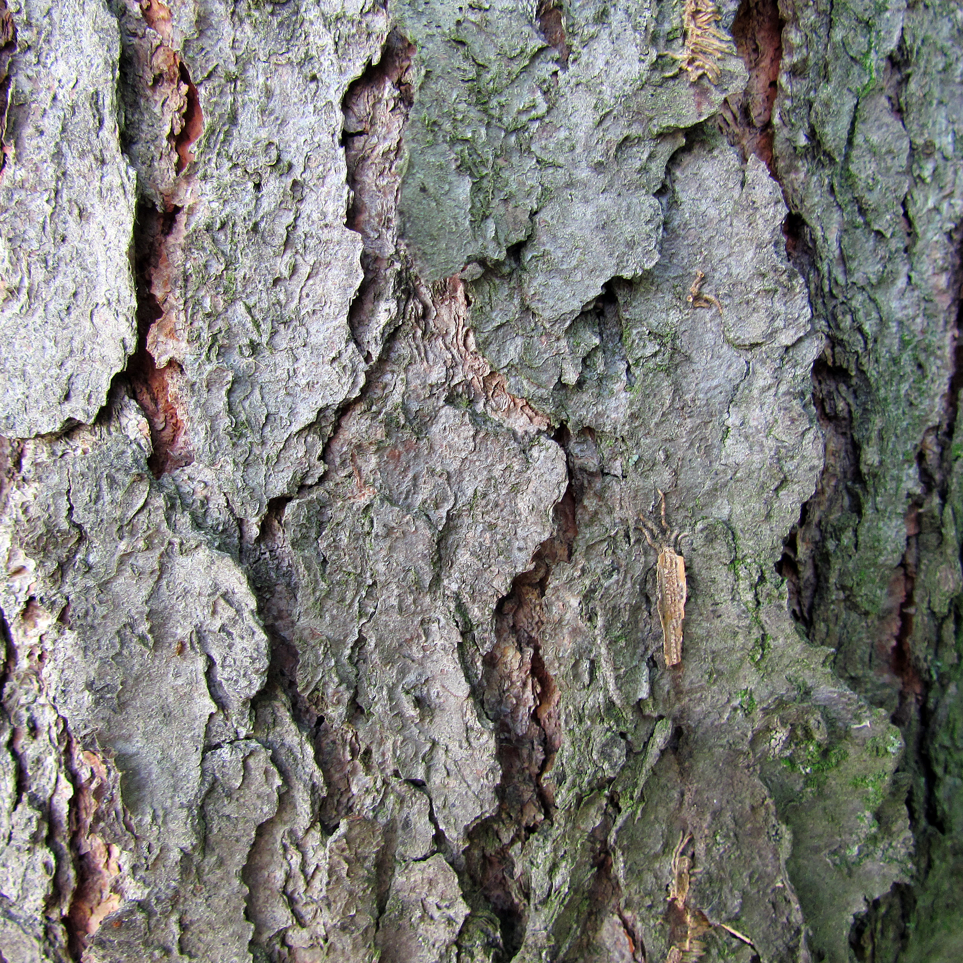 Prunus serotina bark